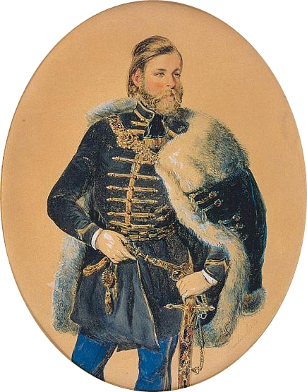 Count Sándor Károlyi de Nagykároly (1830–1906), Hungarian politican. He was famous for his charitable work